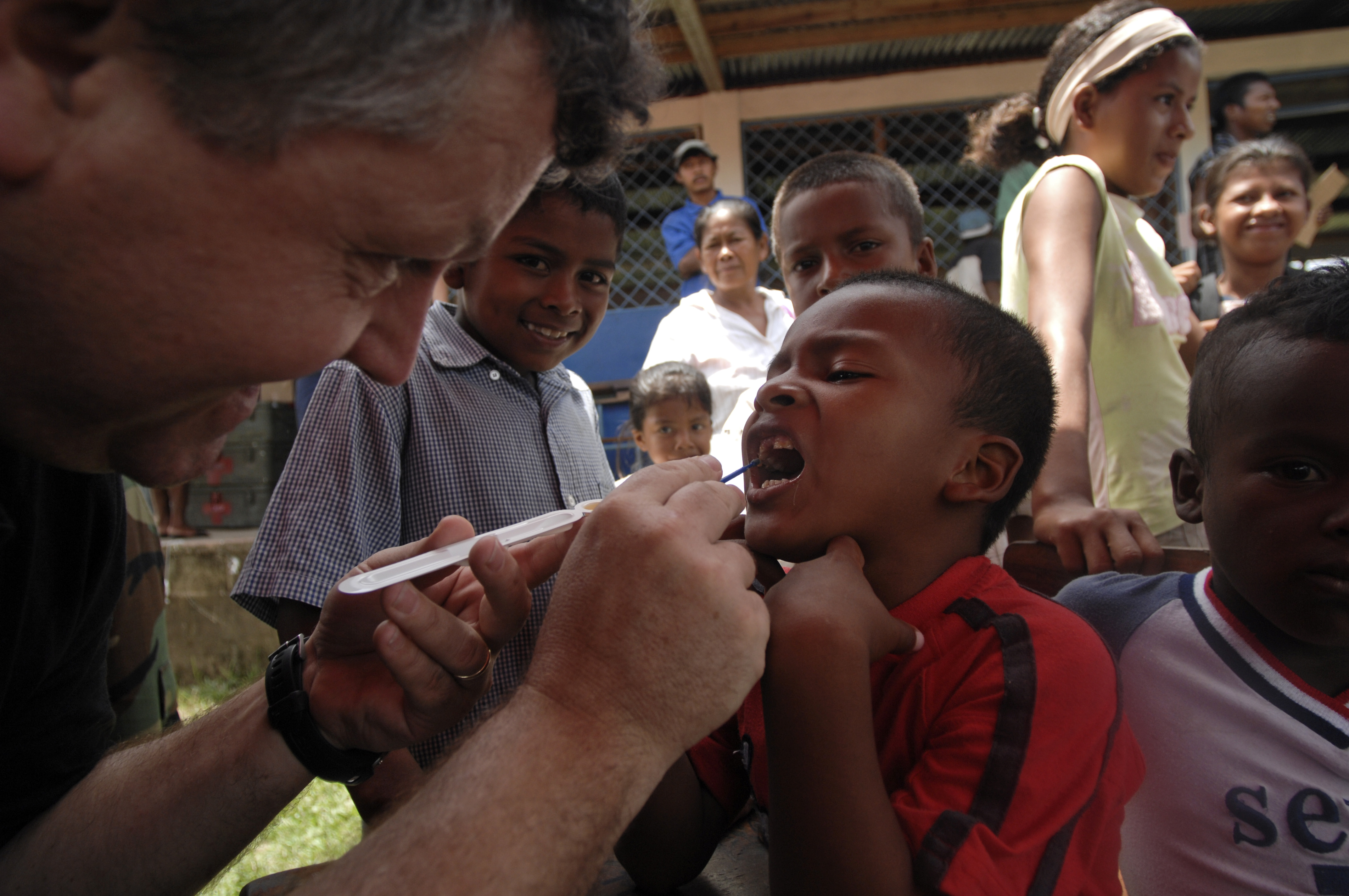 BETANIA, Nicaragua (Aug. 18, 2008) U.S. Public Health Service Lt. Cmdr. Gary Brunette cleans and applies fluoride to the teeth of a young Nicaraguan boy so the enamel of his teeth can strengthen over time. Brunette is embarked aboard the amphibious assault ship USS Kearsarge (LHD 3), which is supporting the Caribbean phase of Continuing Promise 2008, an equal-partnership mission between the United States, Canada, the Netherlands, Brazil, Nicaragua, Panama, Colombia, Dominican Republic, Trinidad and Tobago and Guyana. (U.S. Navy photo by Mass Communication Specialist 2nd Class Erik C. Barker/Released)